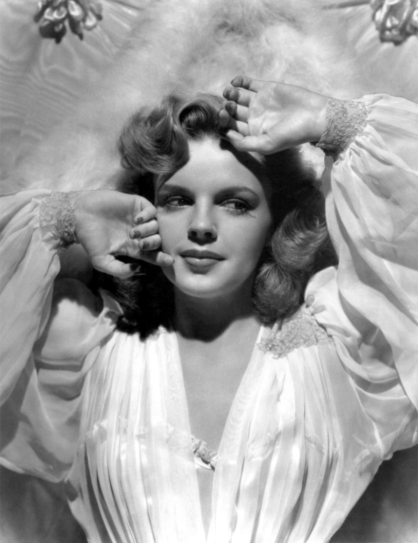 A publicity photo of Judy Garland from 1943, used in connection with promotion of Presenting Lily Mars.